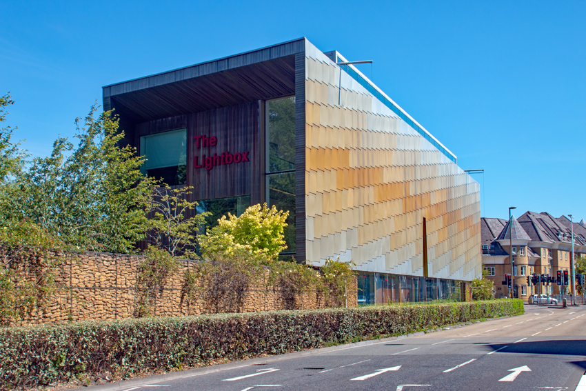 Lightbox art gallery, Woking